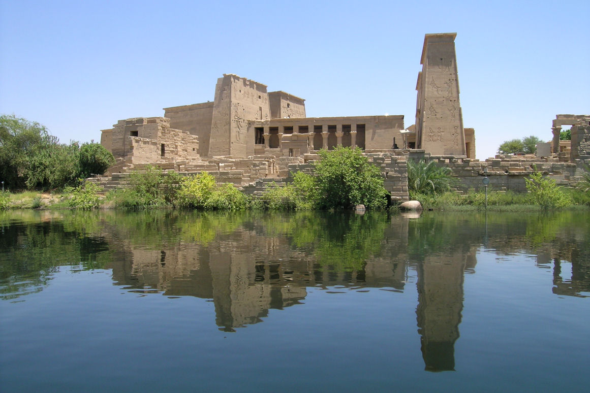 View of the Temple of Isis from Philae at Agilkia Island - seen from Lake Nasser.